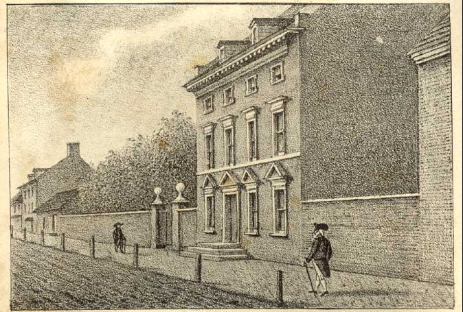 "Residence of Washington in High Street, Philada."